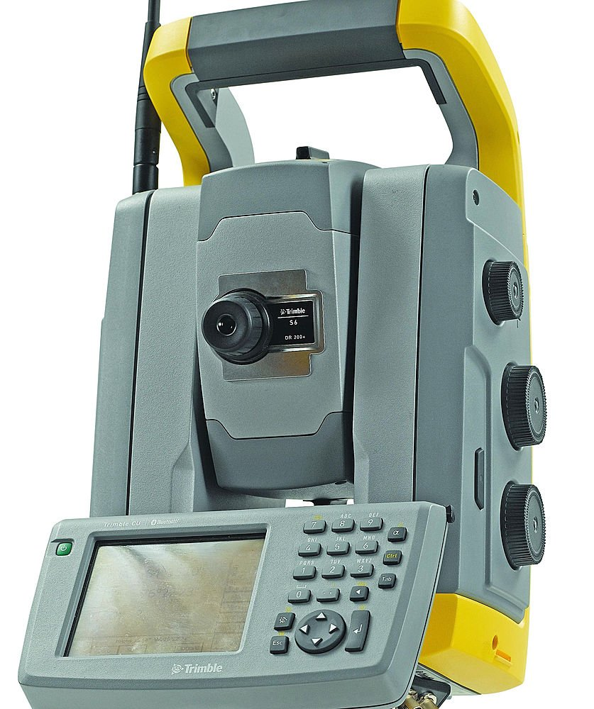 total station